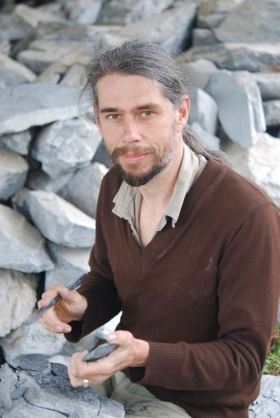 Portrait of Robert Gess, South African palaeontologist, at Grahamstown